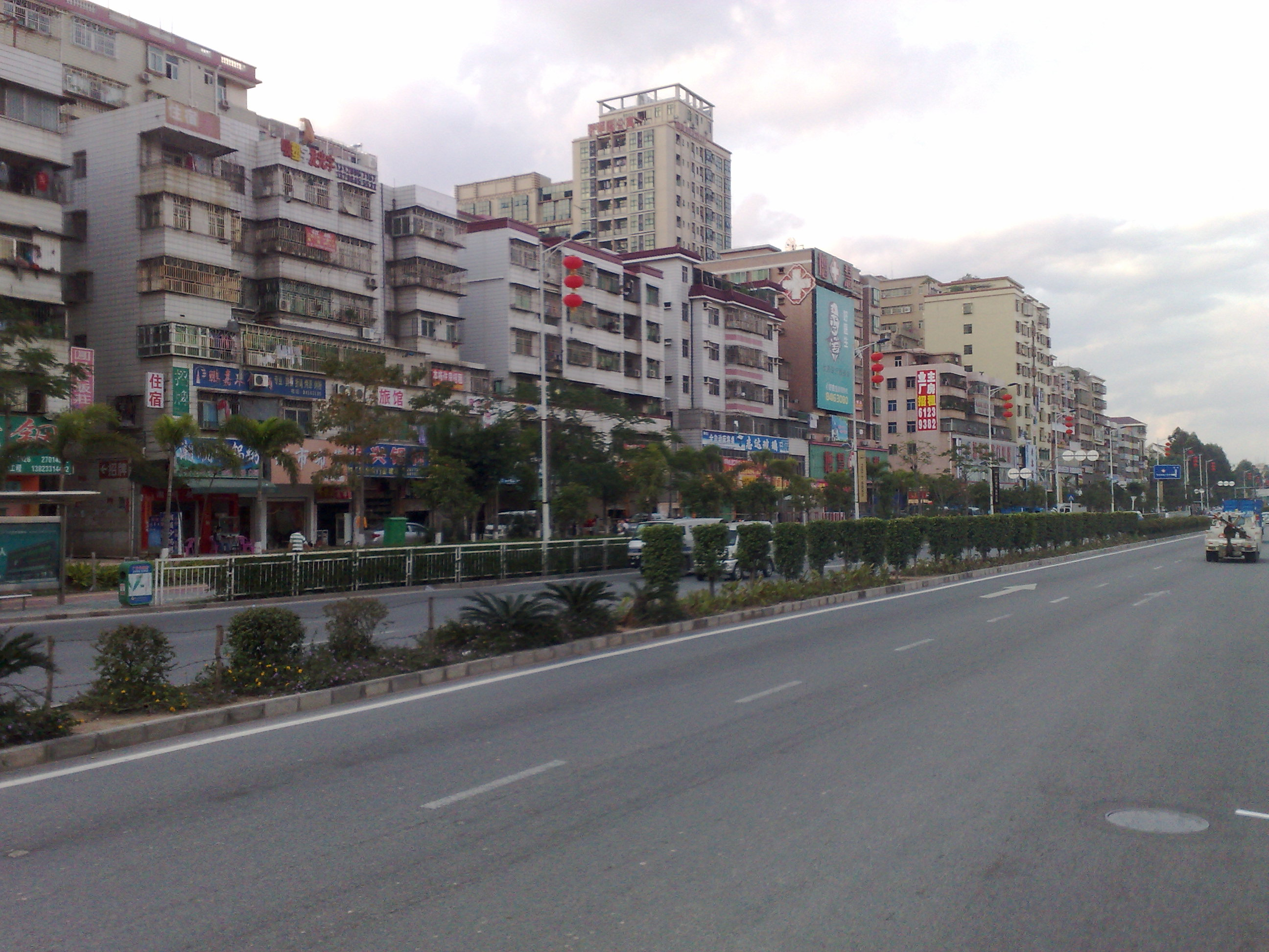 A street in Bantian, Shenzhen